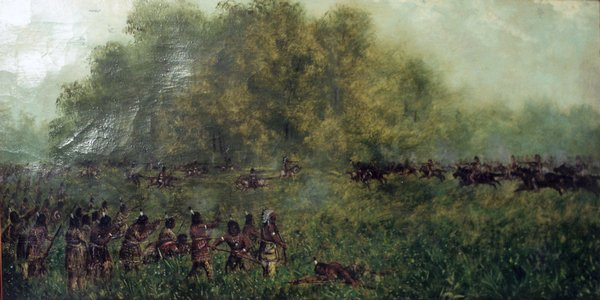 The Battle of Sandusky during the Crawford expedition in the American Revolutionary War